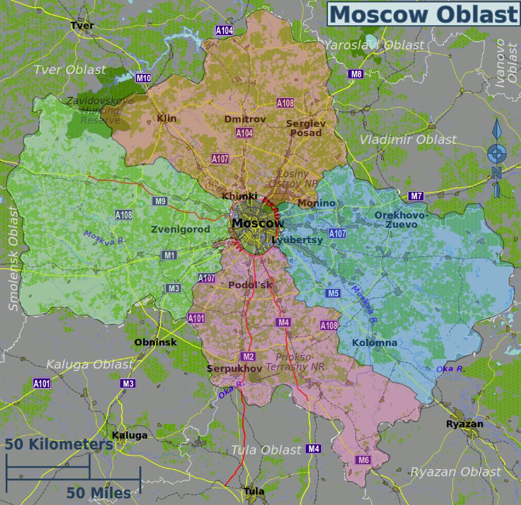 Moscow Oblast regions map. Sloppy work, I know, in superimposing the region colors. En., Moscow Oblast Map of: Moscow Oblast¤.